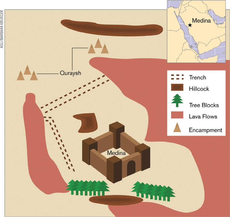 Simplified map of the area of the battle of the trench and where the Meccans camped outside the trench, shown in the image.